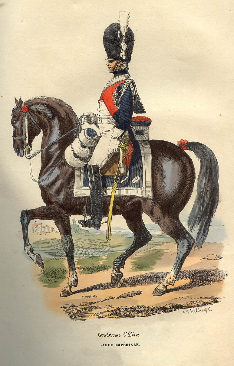 Elite Gendarme from the Imperial Guard of the Grande Armée. From book of P.-M. Laurent de L`Ardeche «Histoire de Napoleon», 1843